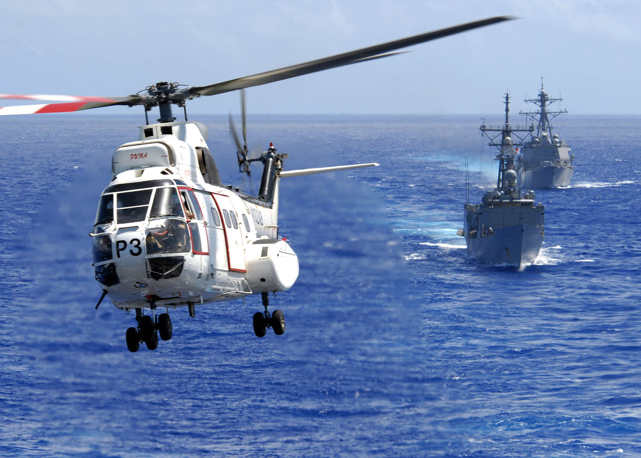 An SA330J Puma helicopter flies past the Arleigh Burke-class destroyer USS Momsen (DDG 92), right, and the Oliver Hazard Perry-class frigate USS Curts (FFG 38) April 5, 2008, as it transports supplies from the Military Sealift Command combat stores ship USNS Niagara Falls (T-AFS 3) to USS Abraham Lincoln (CVN 72). Lincoln and embarked Carrier Air Wing 2 are under way in the Pacific Ocean on a seven-month deployment to the U.S. 5th Fleet area of responsibility.